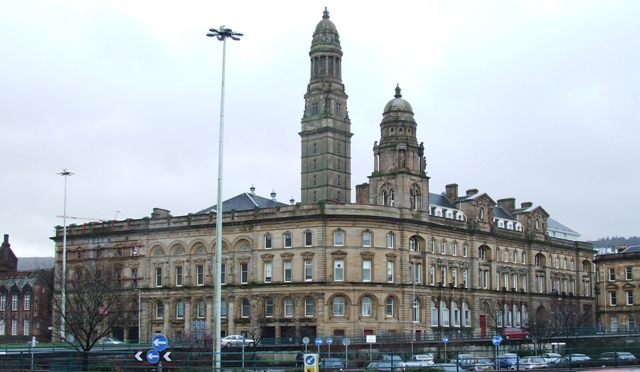 Town Hall and Municipal Buildings Viewed from Container Way. See 322409 for a view of the front of the building. The red sandstone building to the left is the 322317.